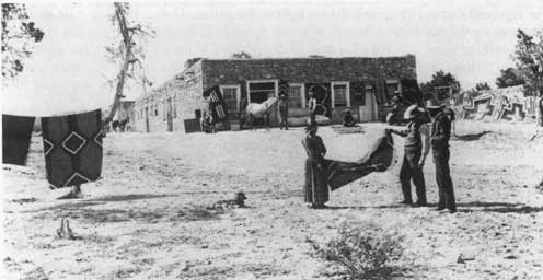 Hubbell Trading Post, Ganado, Arizona, in the 1890s, John Lorenzo Hubbell holds one end of a rug. A Navajo woman, probably the weaver, holds the other end.